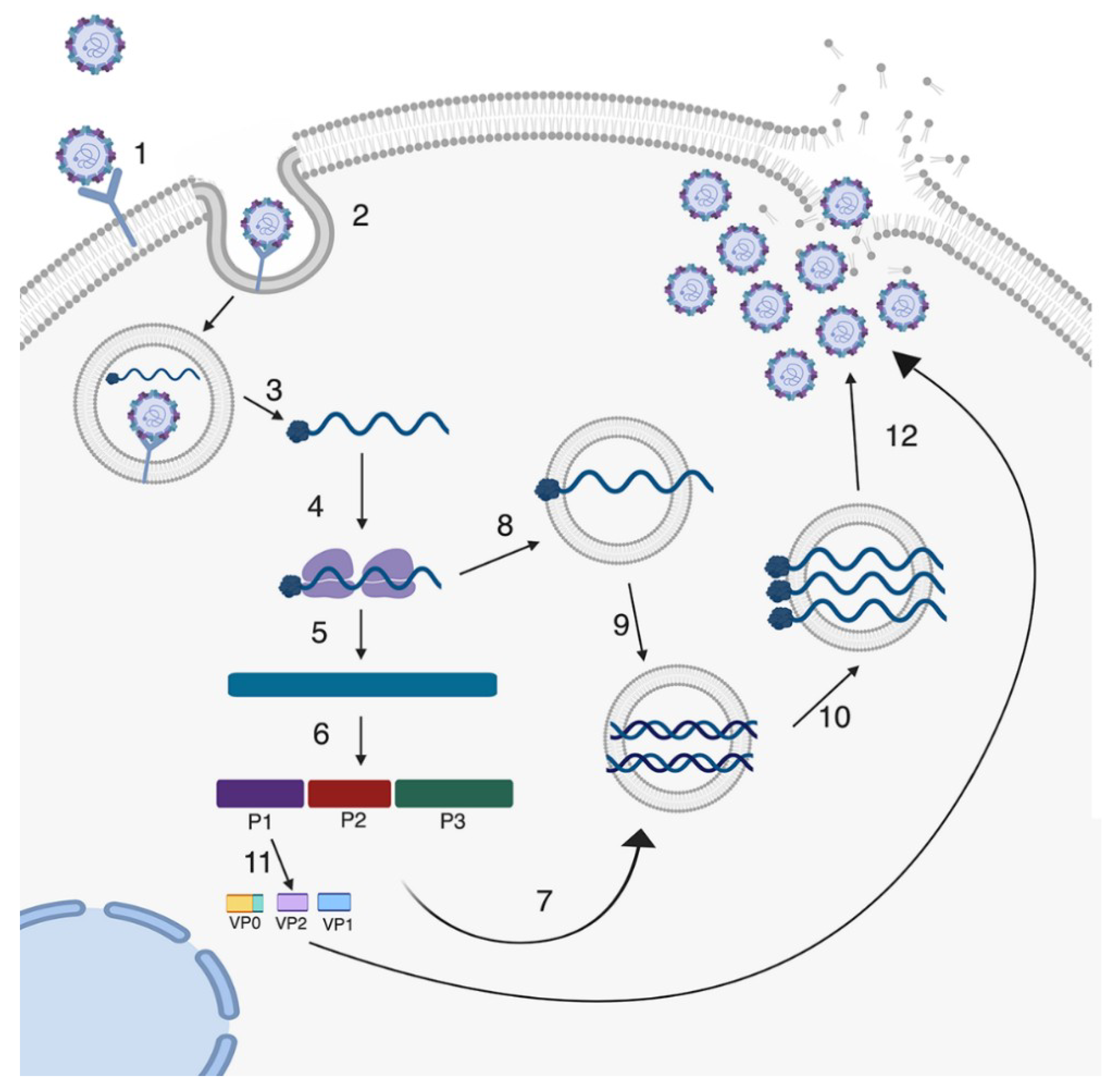 Enterovirus life cycle. Enteroviruses enter the cell through receptor-mediated endocytosis (1). Following endocytosis, uncoating of the virion occurs in the endosome and the positive-stranded RNA along with the covalently-linked VPg protein is released into the cytoplasm (2 and 3). Viral RNA is translated by host ribosomes making a single polyprotein that is catalytically cleaved by enterovirus proteases 2Apro and 3Cpro (4, 5, and 6). After production and accumulation of non-structural proteins, including the viral polymerase, viral RNA is then replicated using the virally-encoded RNA-dependent RNA polymerase to generate a double-stranded RNA (8 and 9). The negative sense RNA serves as the template to make more positive sense RNA. This newly produced RNA can be the template to produce more positive sense RNAs or serve as the genome for progeny viruses (10). Capsid proteins assemble and newly synthesized positive-stranded viral RNA is packaged into virion (11). Finally, new progeny virions are released either by non-lytic release, where virions are released in vesicles (not shown), or are released when the cell undergoes lysis (lytic release) (12).